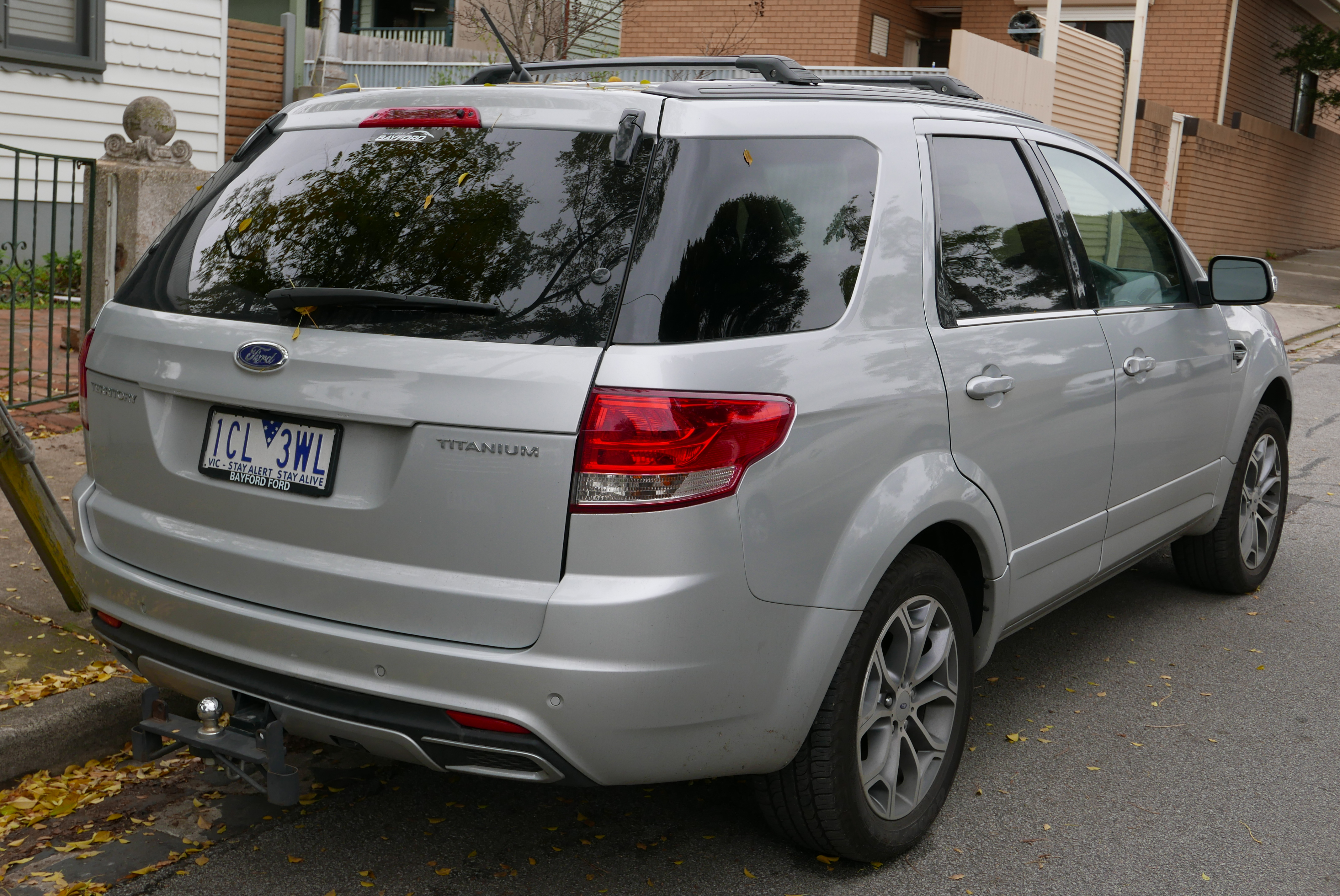 2014 Ford Territory (SZ) Titanium RWD wagon. Photographed in Northcote, Victoria, Australia. Vehicle registration enquiry resultsJurisdictionVictoriaRegistration1CL3WLChassis code6FPAAAJGATEU65780Engine codeJGATEU65780Compliance date2014-06Year of manufacture2014